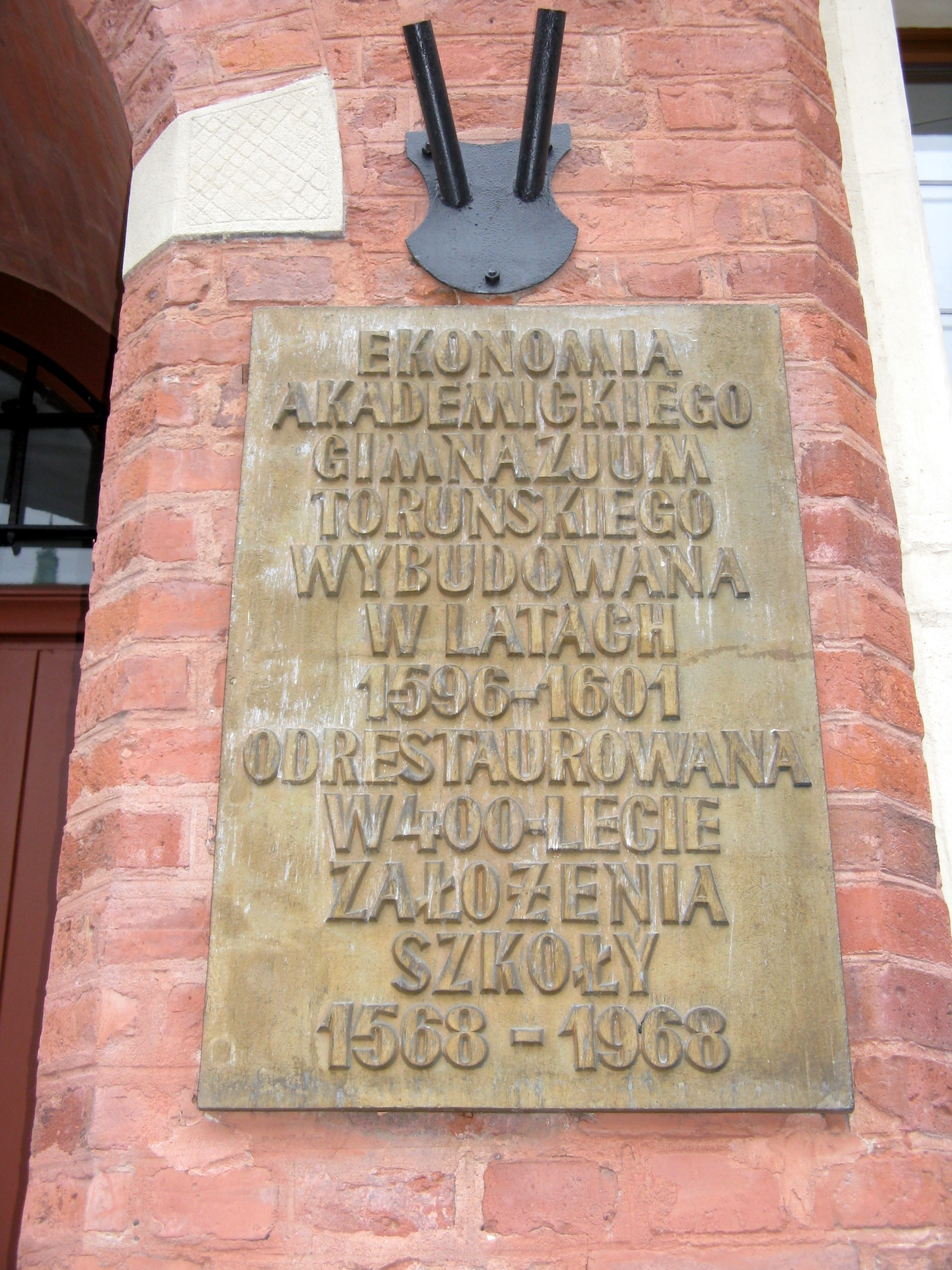 Plaque on 400 yrs school building in Old Town in Toruń